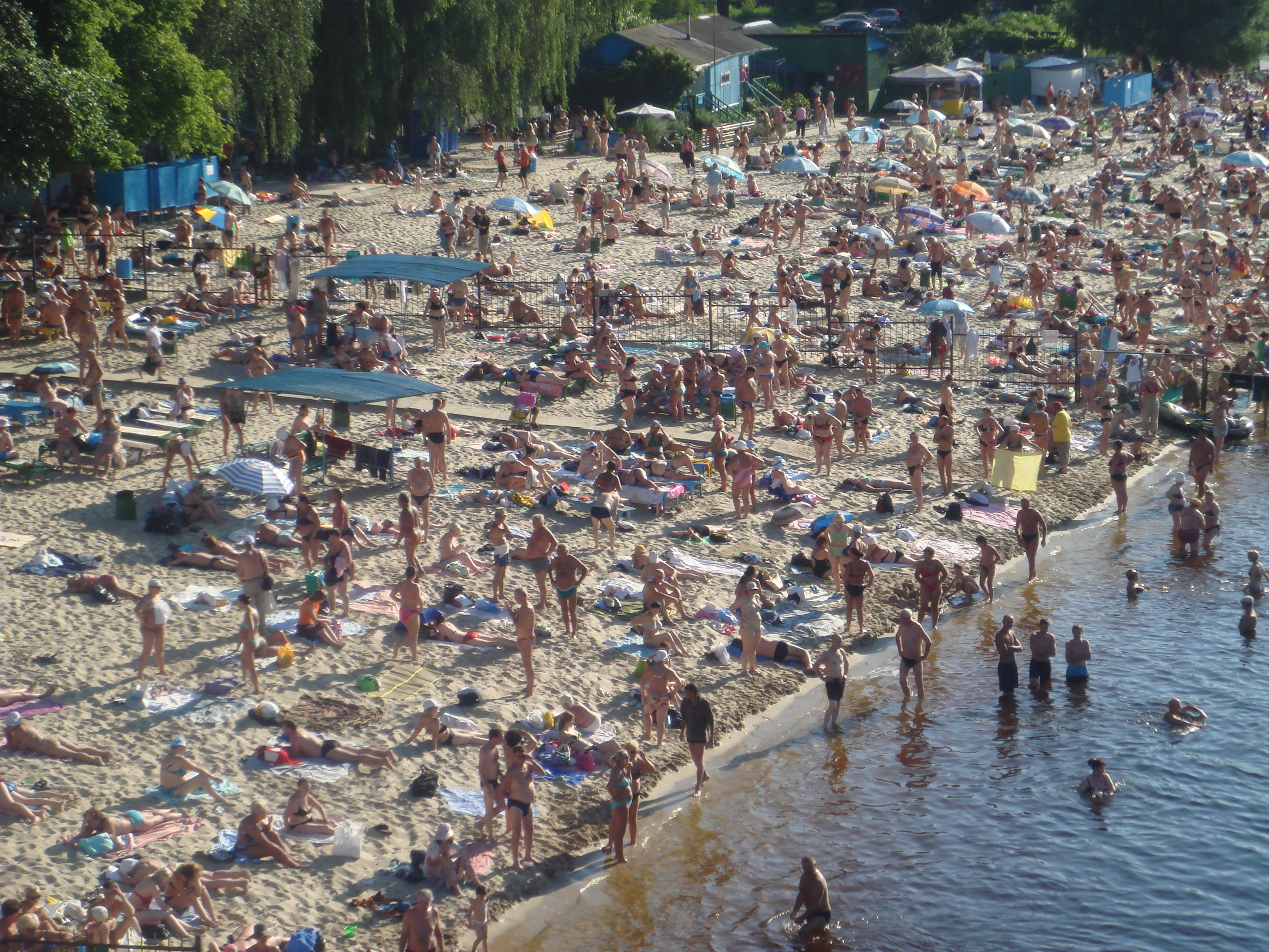 A Hidropark beach in Kiev, Ukraine